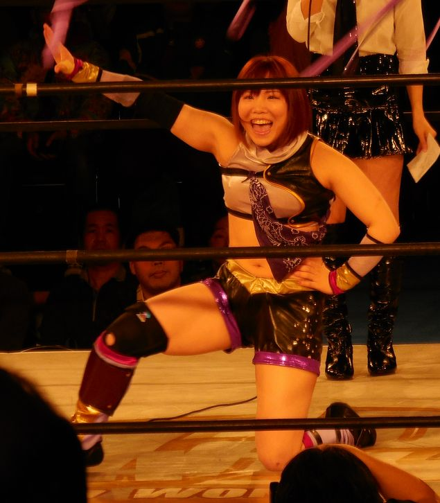 Japanese professional wrestler Kairi Hojo in March 2013.